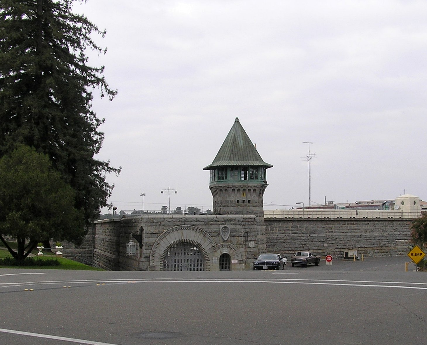 Folsom prison